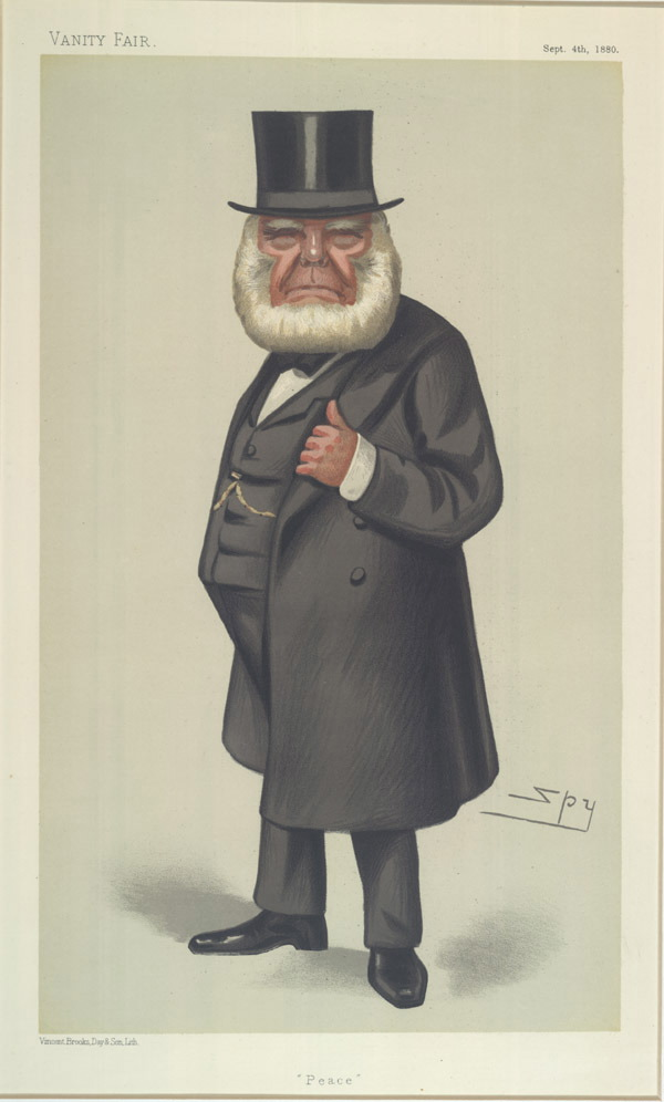 Statesmen No.337: Caricature of Mr Henry Richard MP. Caption reads: "Peace"